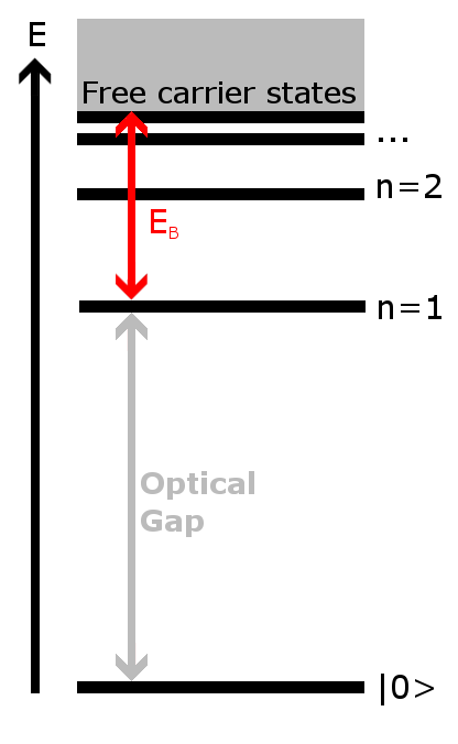 The image show how exciton excited states can be rapresented as level in the hydrogen atom